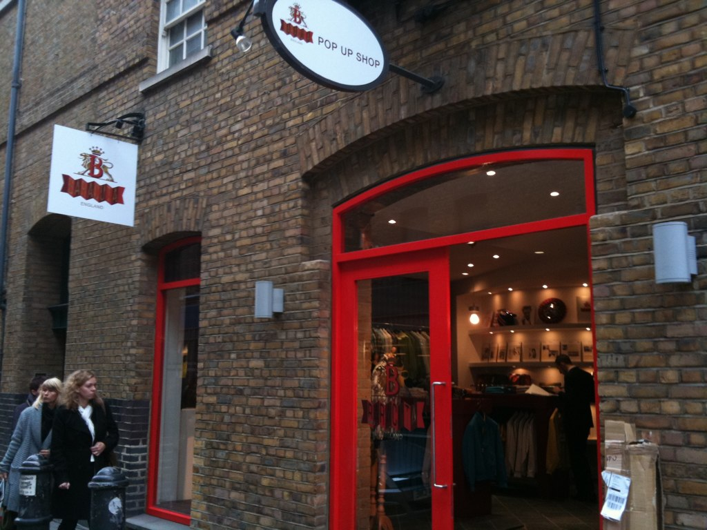 bargain(ish) very good quality harringtons, very pop up, had those carbon swipe things to take payment, and were still half setting it all up. great stuff. Was due to be open for only 3 months, though i think its permanent now.